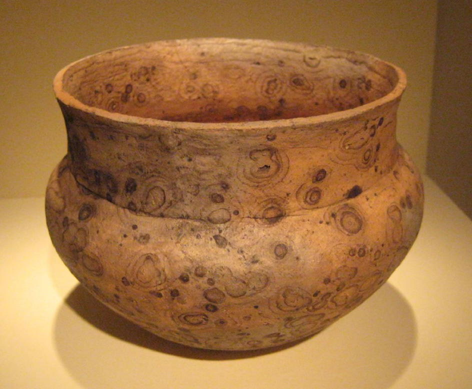 Bowl: Kongo peoples, Republic of the Congo and Democratic Republic of the Congo. Now in the National Museum of African Art, Washington, DC. Ceramic and vegetable dye